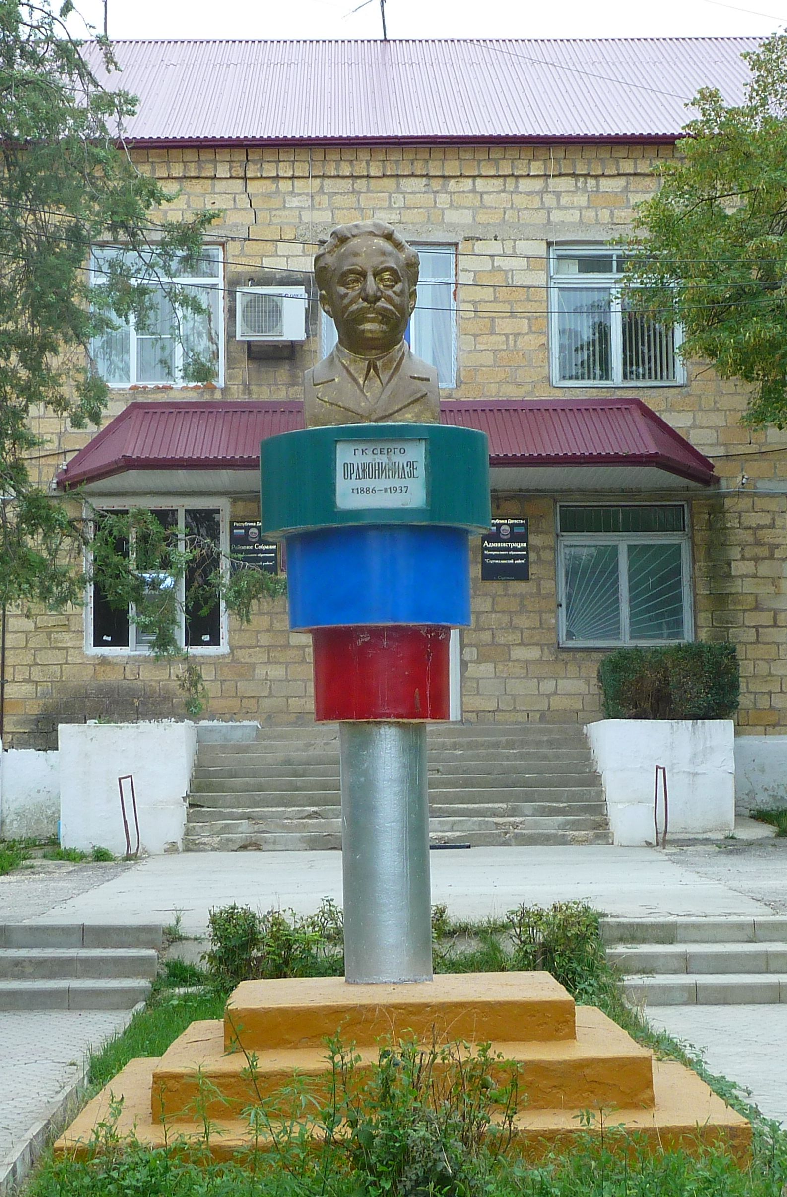 In Sergokala